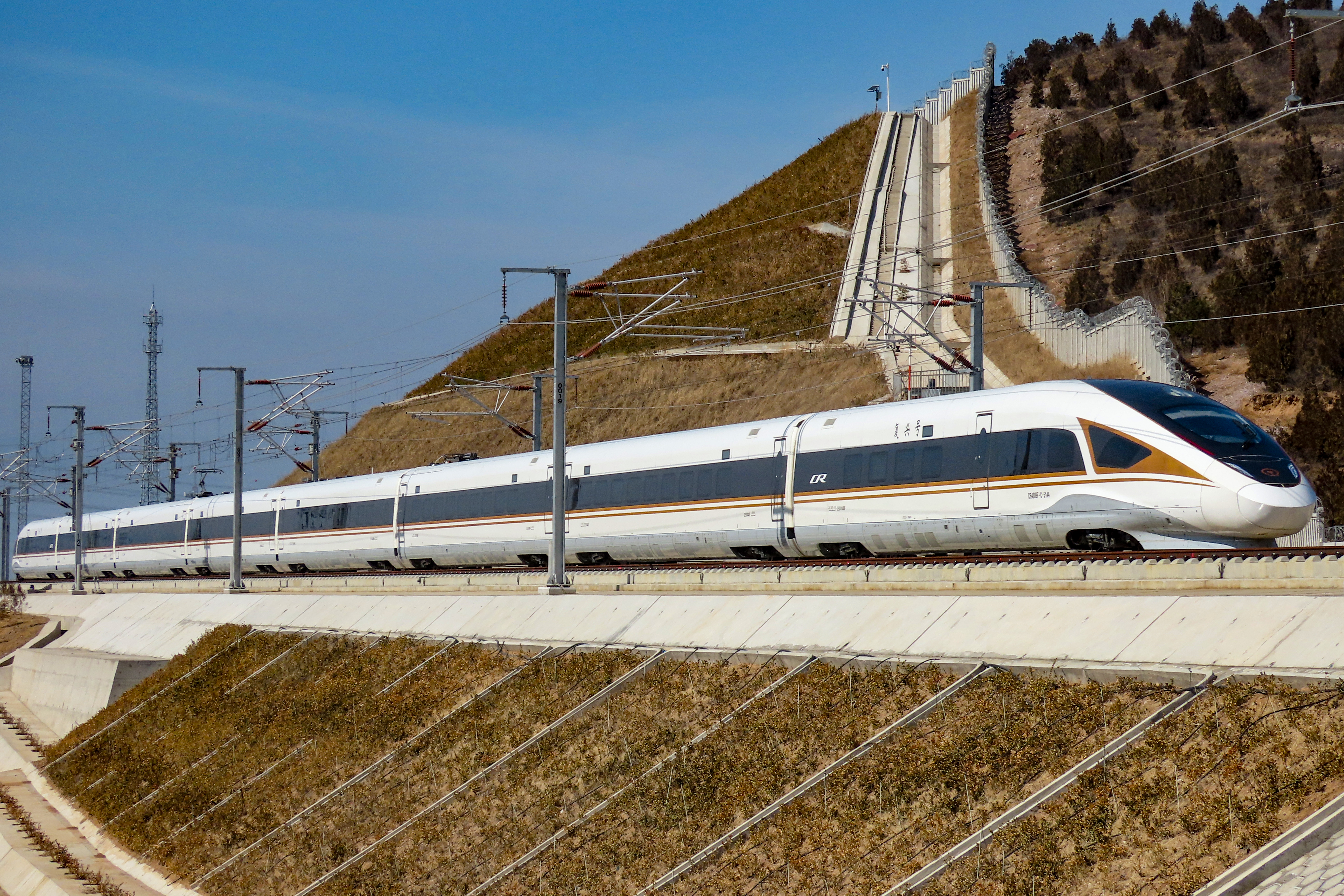 G9102 from Zhangjiakou to Beijing North, using this non-Olympic, but still "intelligent", BF-C. I see spring returning to the north...